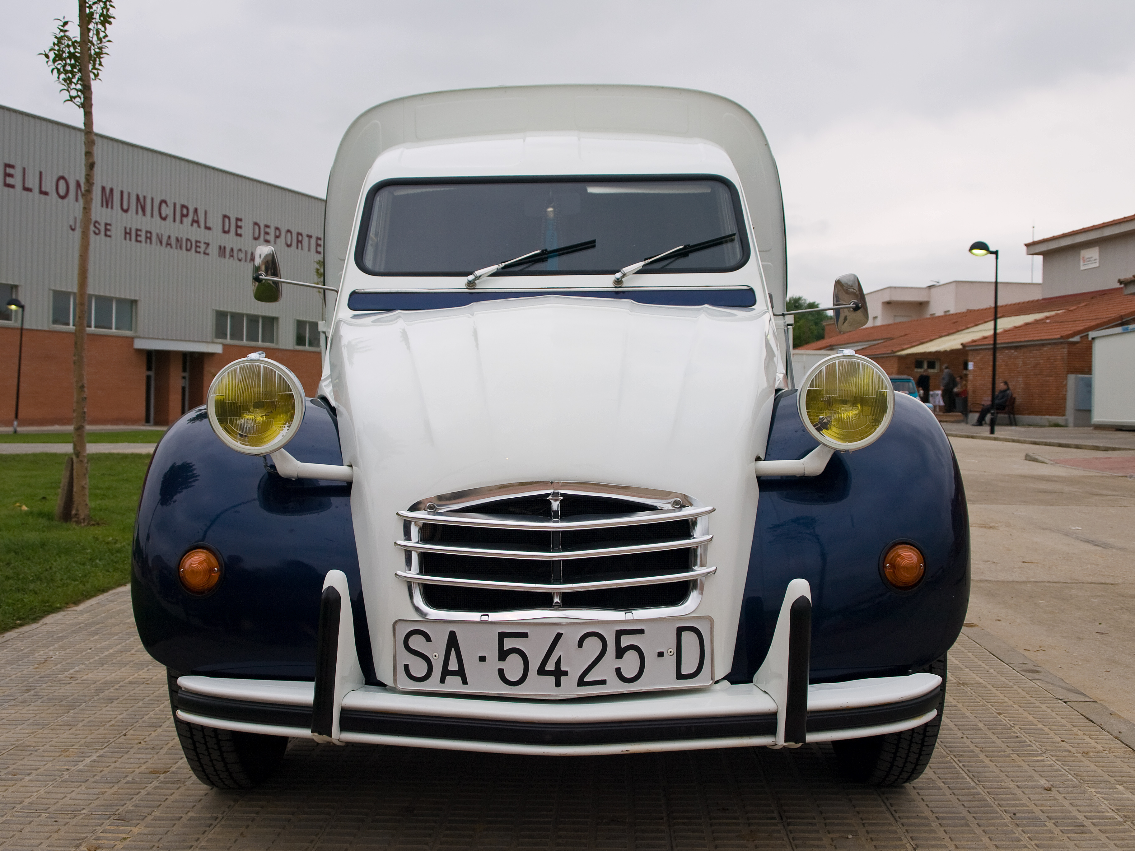 Citroën 2CV van